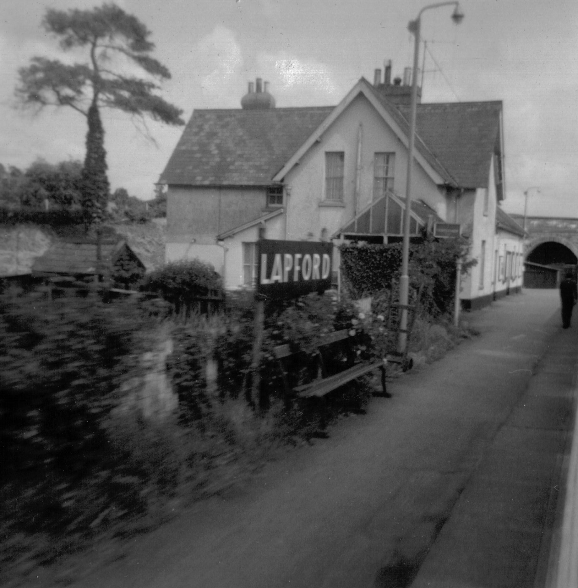 Lapford railway station on the Exeter to Barnstaple line.